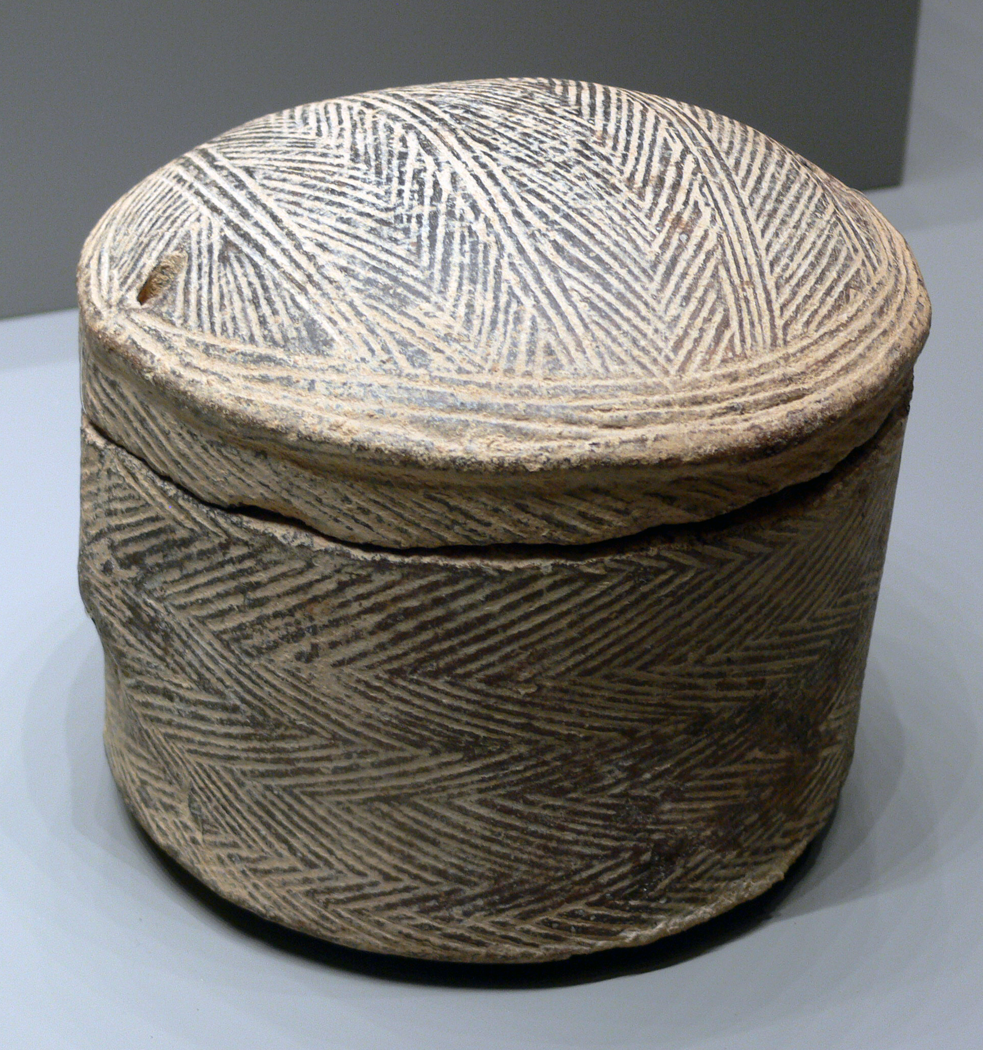 Cylindrical Pyxis and Lid with a Herringbone Pattern of the Grotta-Pelos Group.